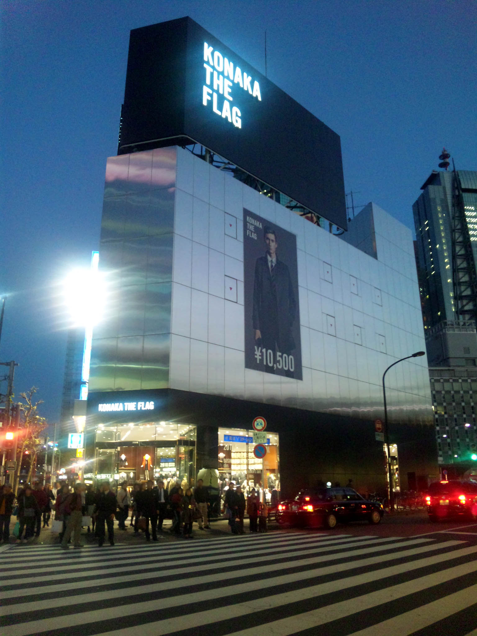 KONAKA THE FLAG(shinbashi Tokyo)